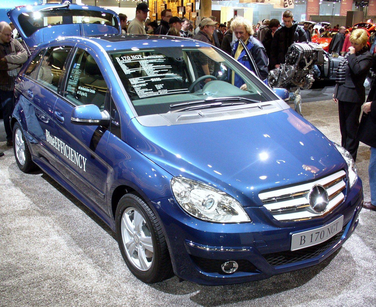 Mercedes-Benz W245 Facelift BlueEfficiency